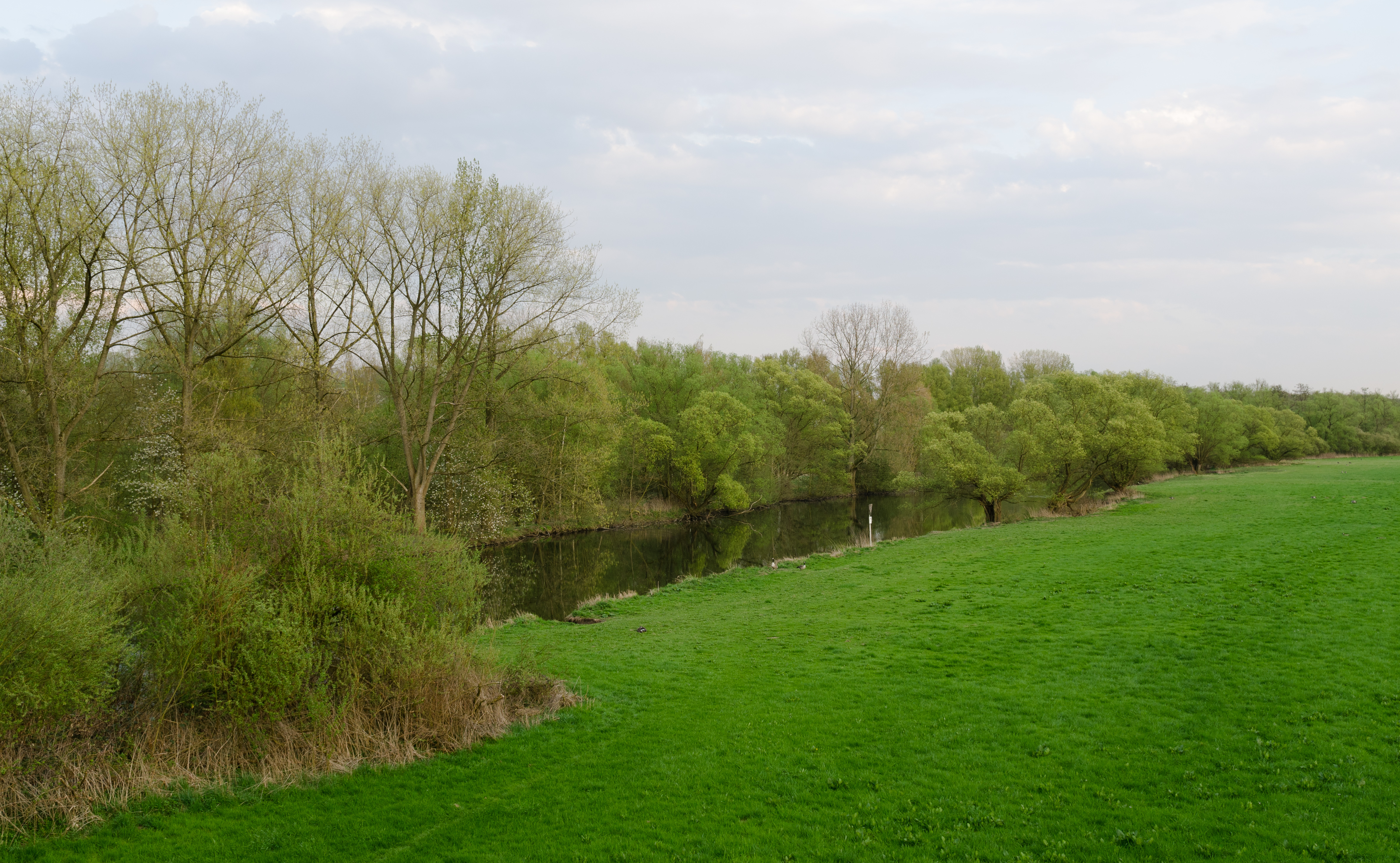 Ruhr grass land photographed from Menden Bridge directed to south-east